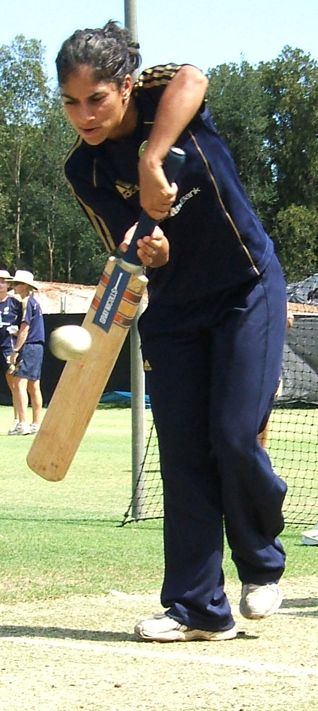 Named person engaging in named action at Adelaide Oval nets/training ground